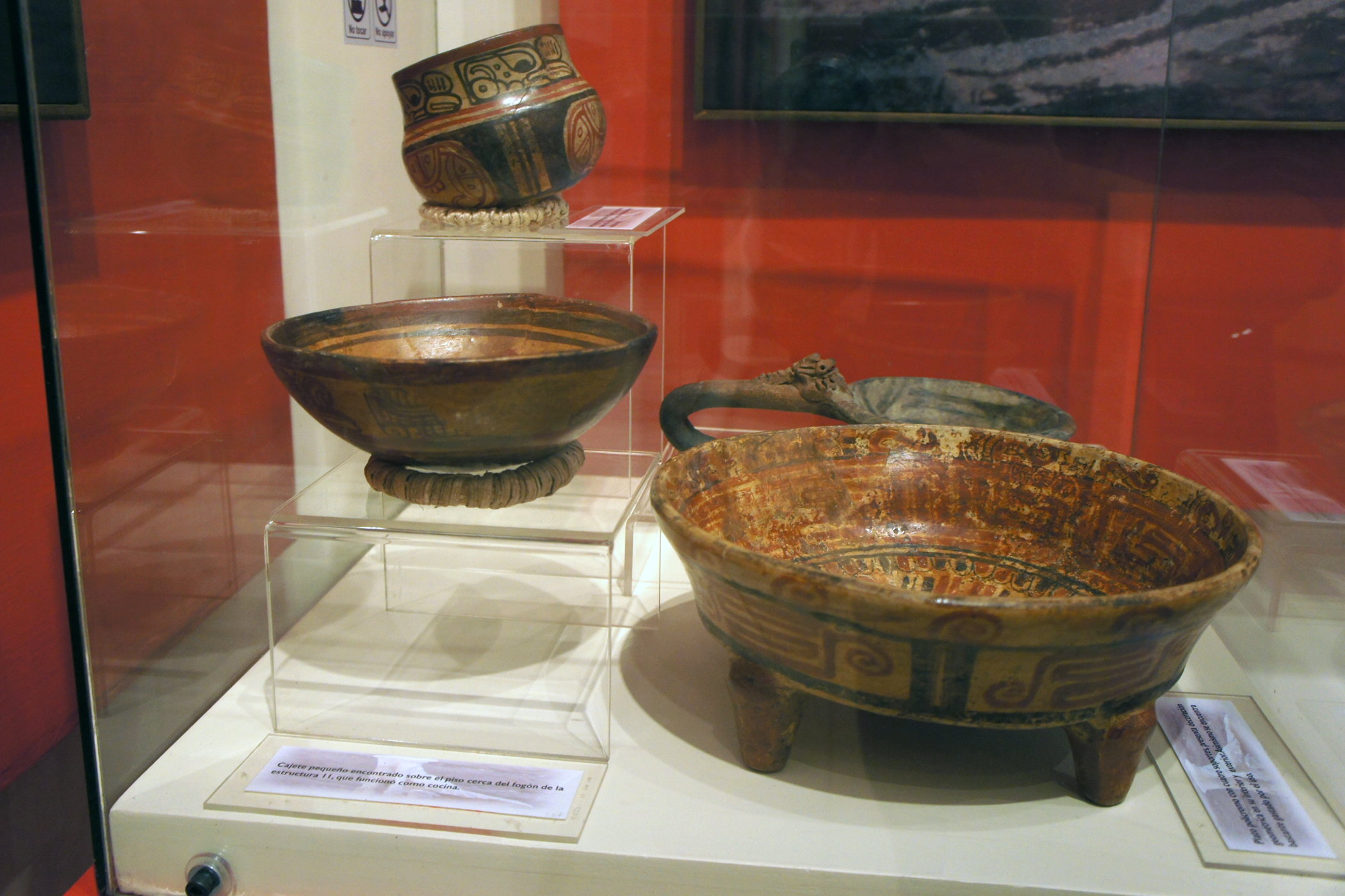 Mayan artifacts found at the Joya de Cerén archaeological site and in display at the Joya de Cerén Museum, El Salvador